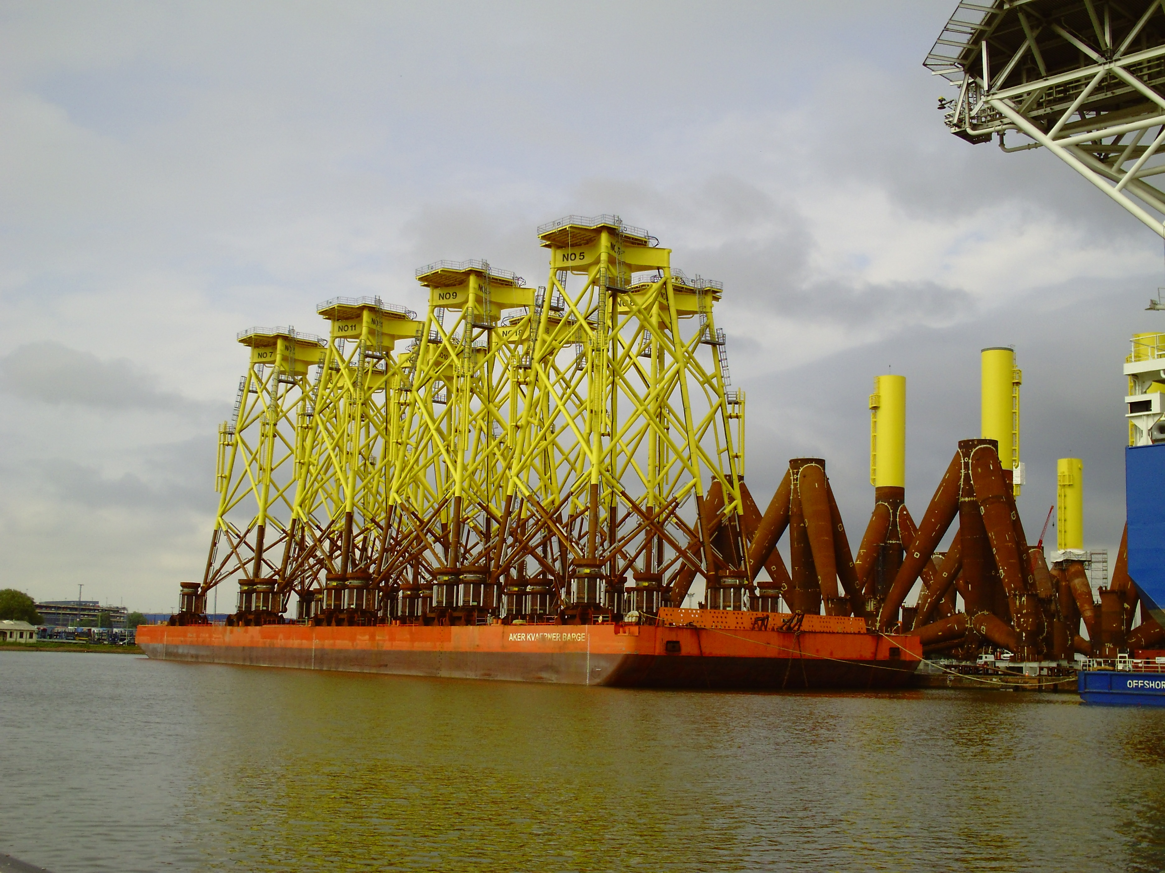 Steel jackets for offshore wind energy production on a barge without own propulsion in the port of Bremerhaven. Some tripods also used as foundations for wind energy plants are behind the jackets.